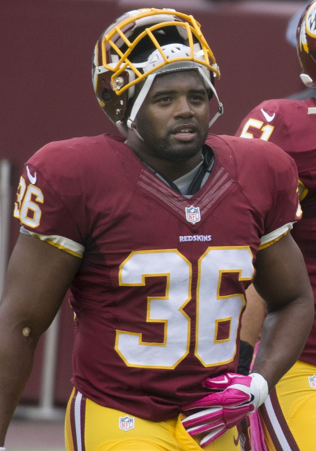 Eagles at Redskins 10/04/15